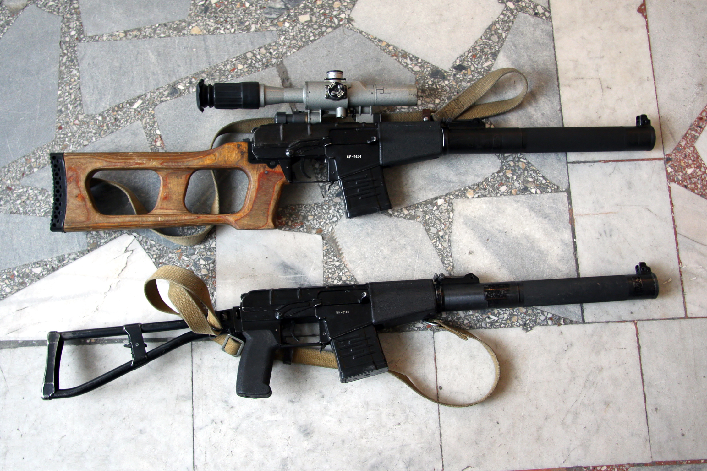 VSS Vintorez and AS Val in Conscript day in Moscow 2011